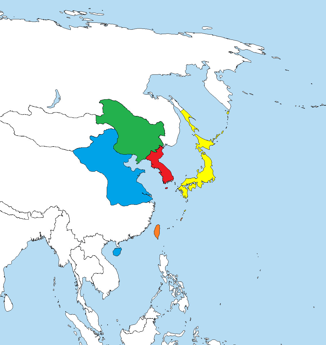 Mainland Policy Japan First stage, occupy Formosa Second Stage, occupy Korea Third Stage, occupy Manchuria Last Stage, occupy China(Failed)